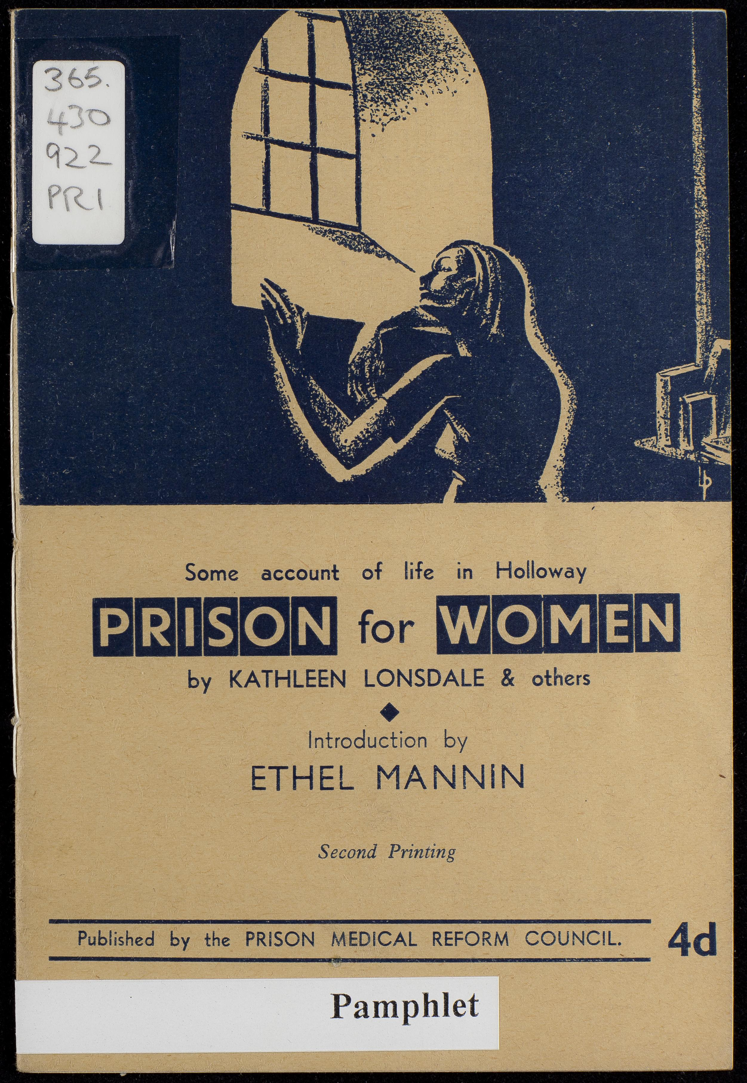 365.430922 PRI